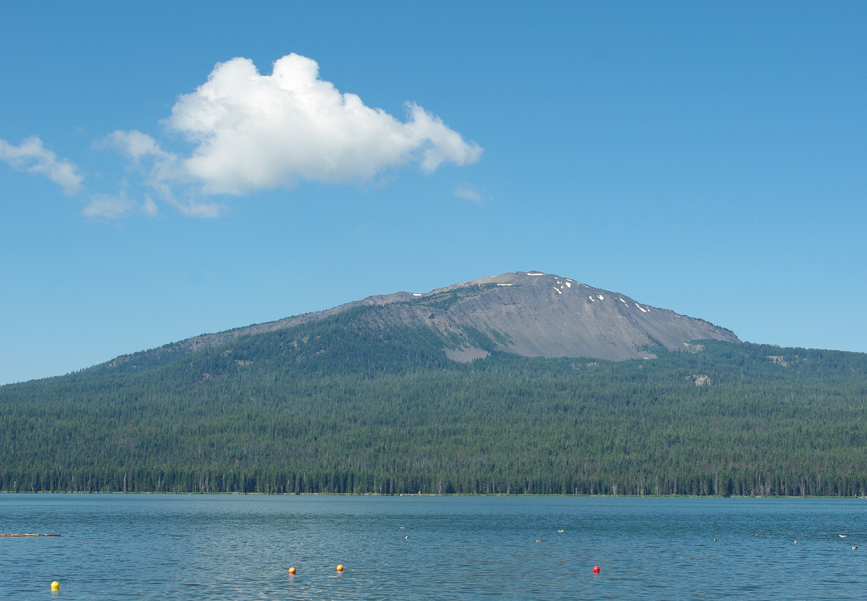 Mount Bailey (Oregon) with Diamond Lake in the foreground.